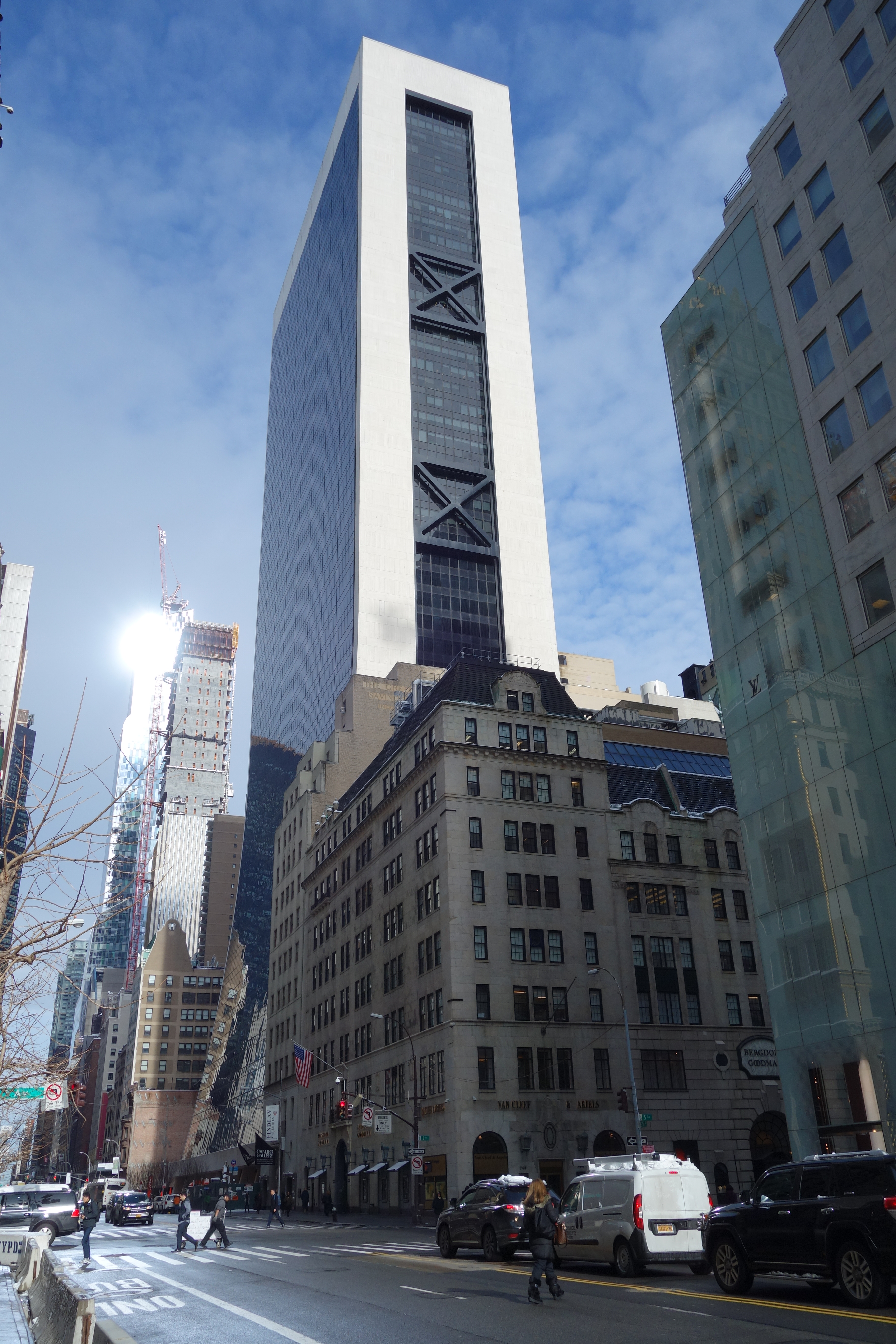 Looking west at the Solow Building, from the south side of 57th Street east of 5th Avenue in Midtown Manhattan. The Bergdorf Goodman Building is in the foreground.